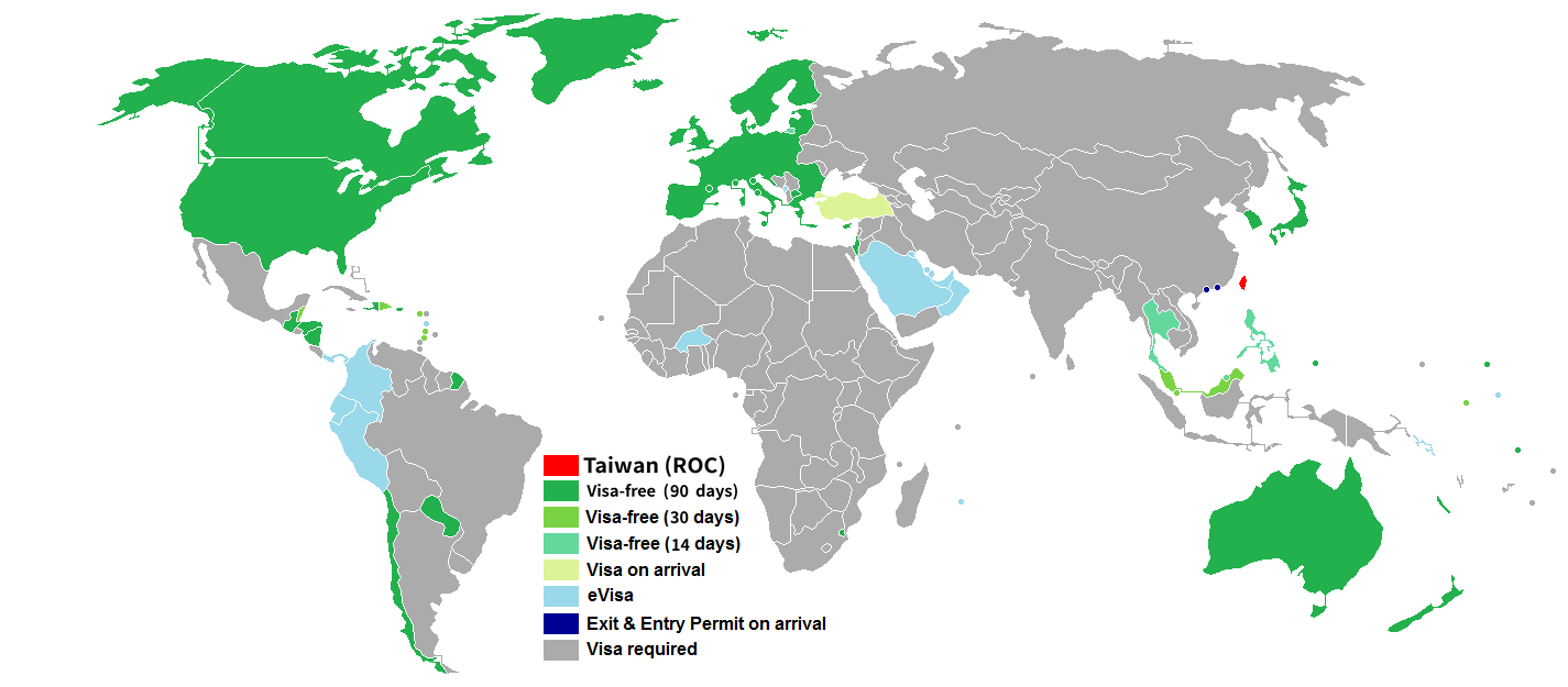 Visa policy of Taiwan Taiwan Visa-free - 90 days Visa-free - 30 days Visa-free - 14 days Visa on arrival eVisa Exit & Entry Permit on arrival Visa required